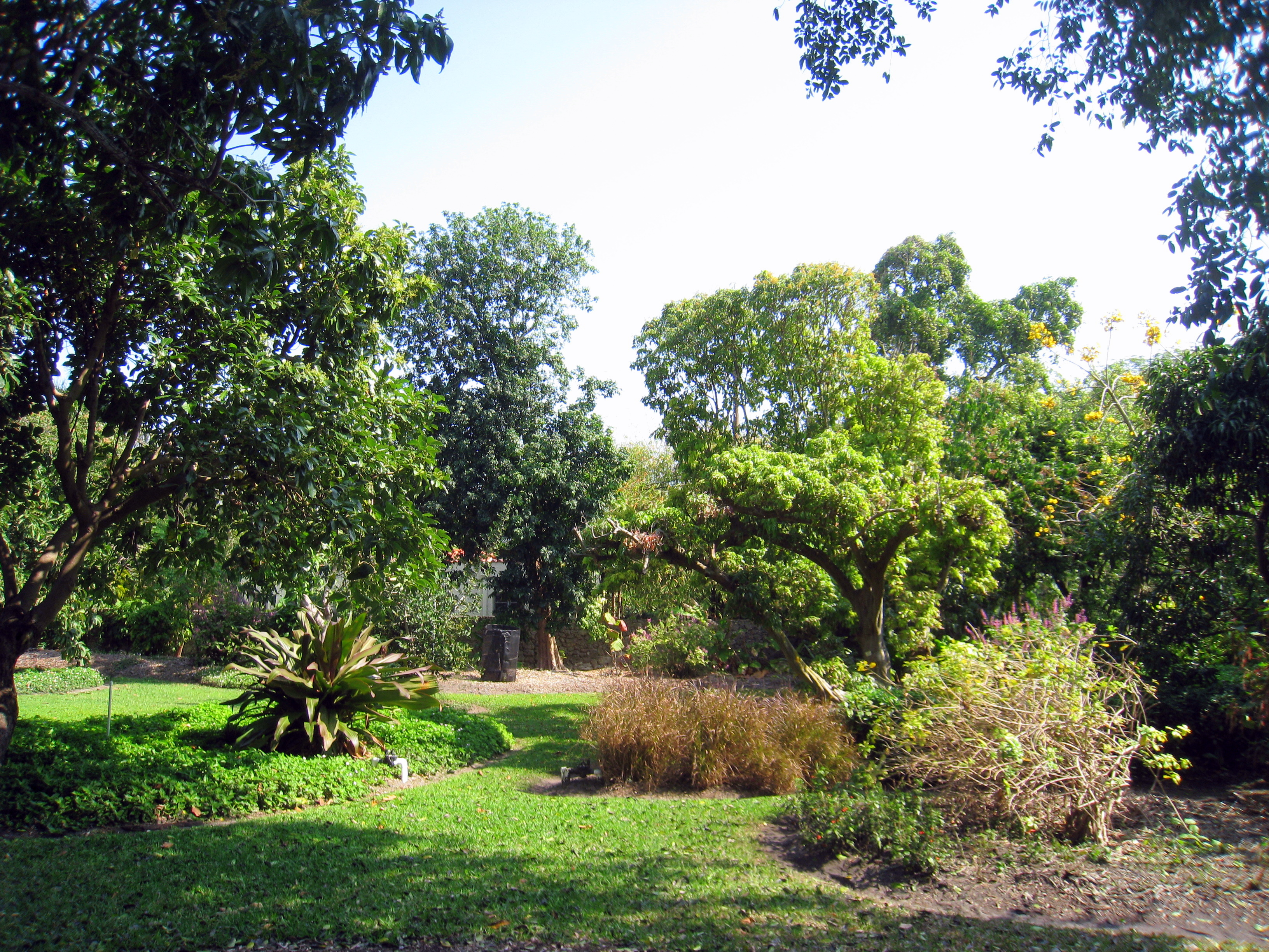 The Kampong, Coconut Grove, Miami, Florida, USA. General view.